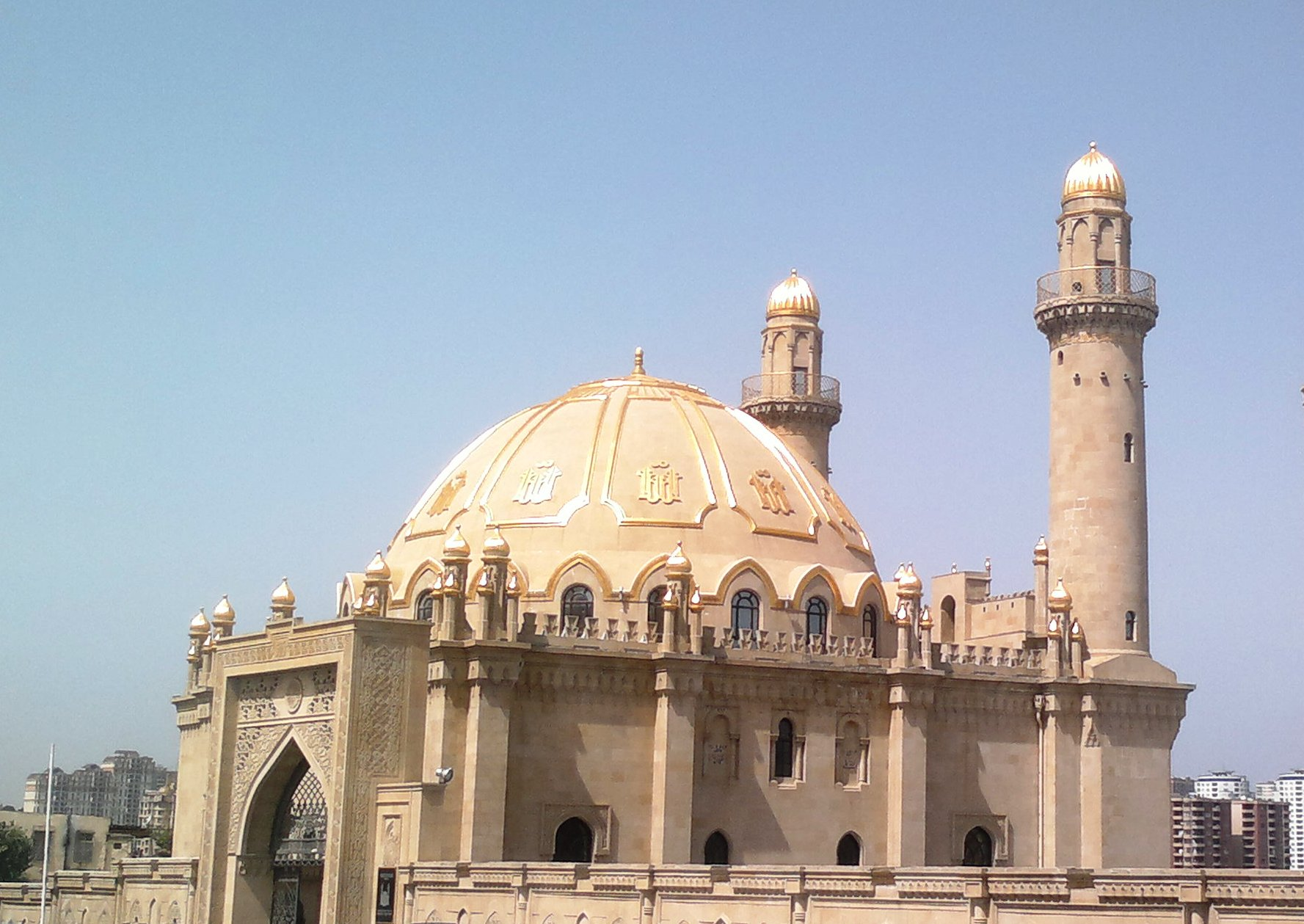 Taza Pir mosque